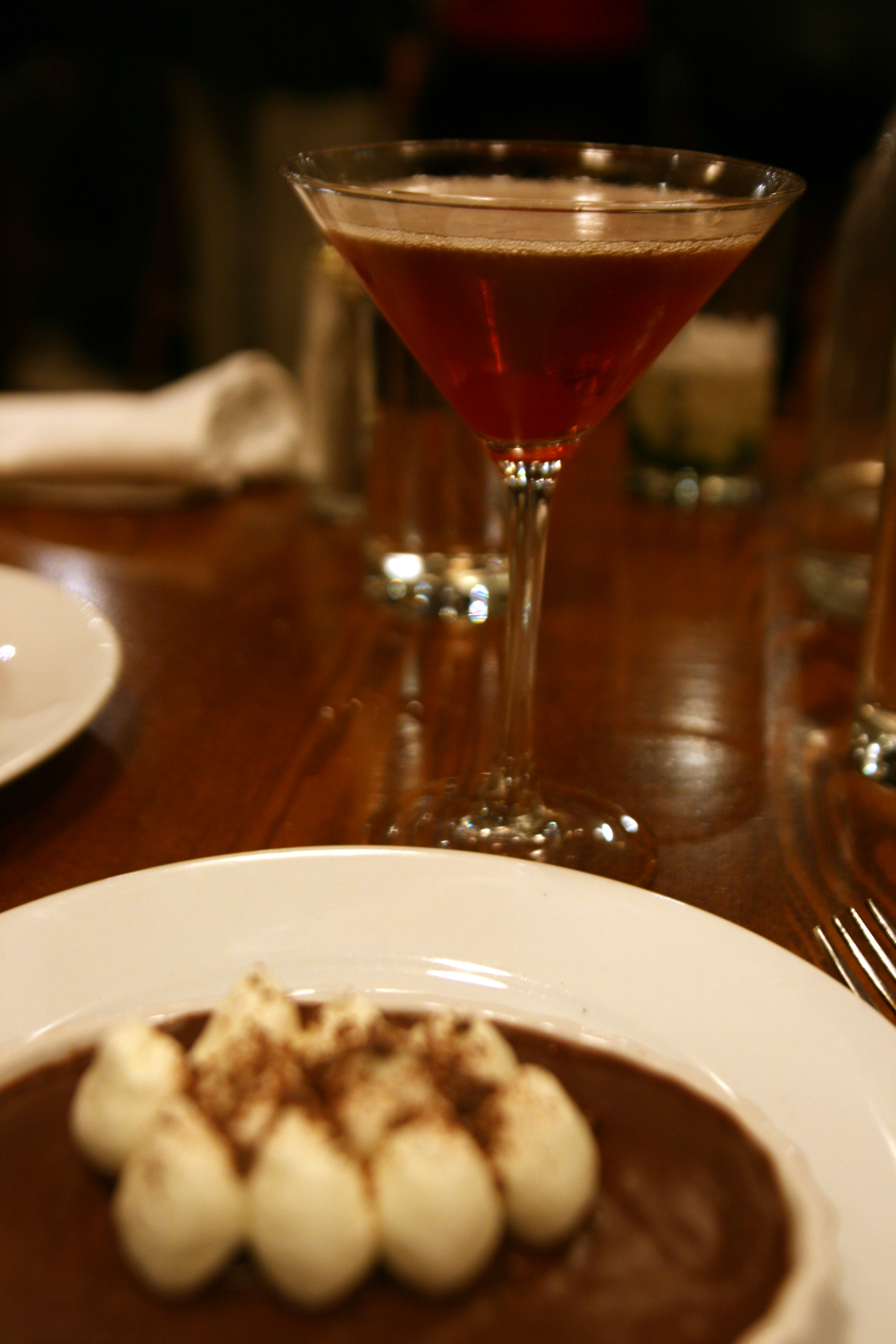 Manhattan cocktail and chocolate cake with brandied cherries, New Orleans.